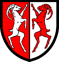 Coat of arms of Anniviers in Switzerland (Canton of Valais)